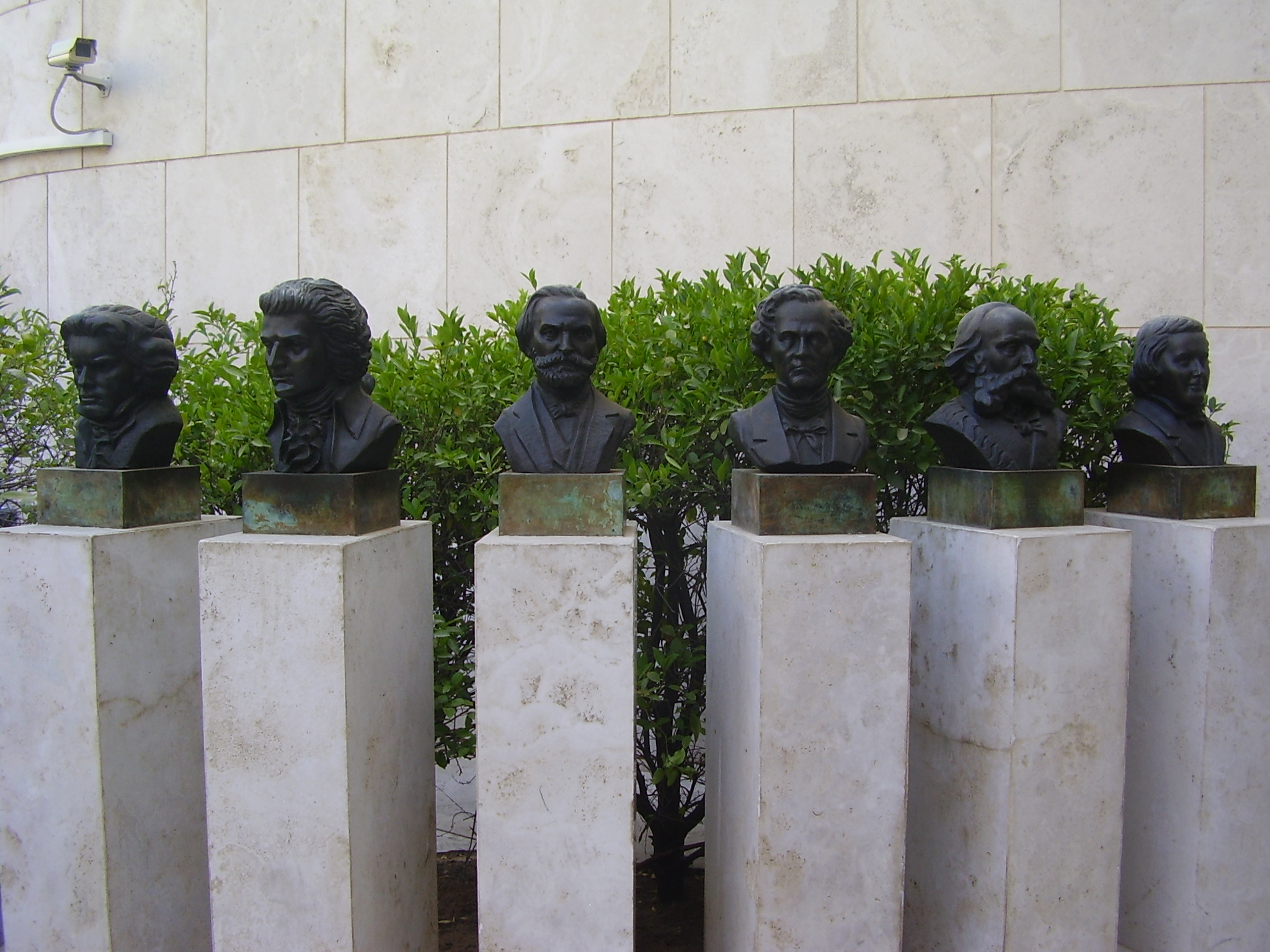 Opera Composers sculptures in Tel Aviv